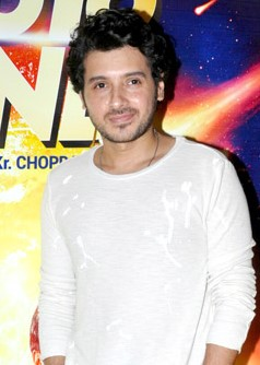 Divyendu Sharma at trailer and poster launch of 2016 The End.